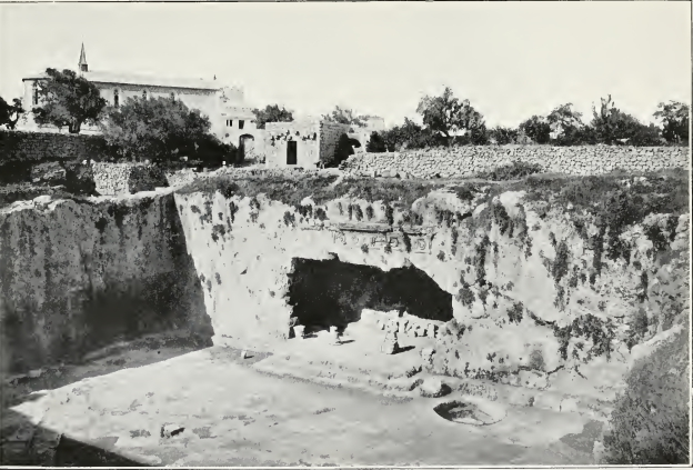 Tombs of kings 1913